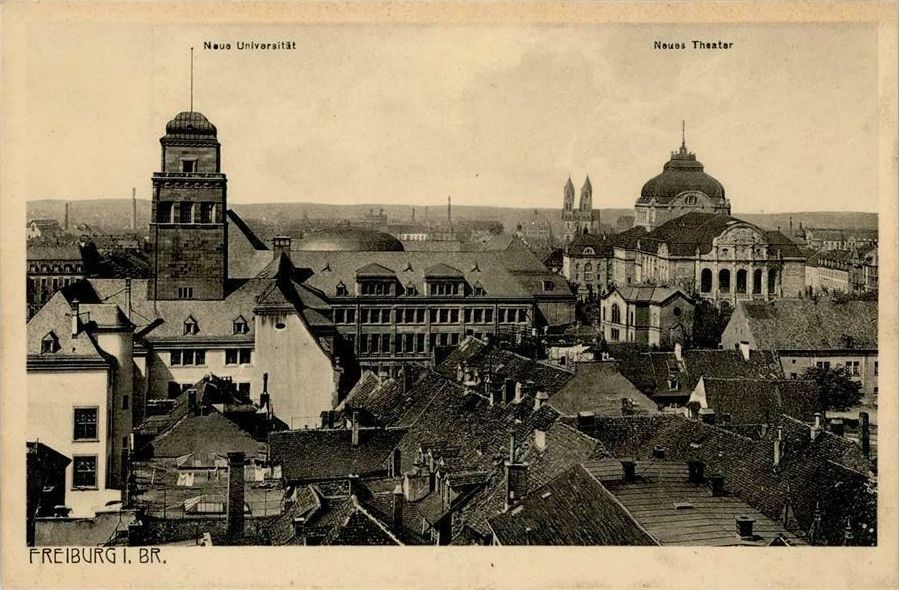 The new University (left), the Synagogue (middle), the new Theatre (right) of Freiburg, seen from a south-eastern point of view.